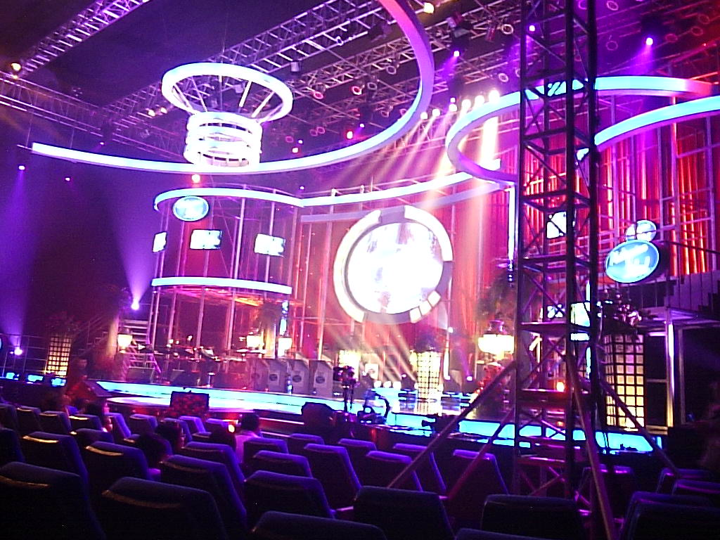 Photo of Philippine Idol Stage in SM Megamall Cinema 3, posted on Flickr ( by username "jher25" (Jerome Trinona). Released as Creative Commons by-sa-2.0.